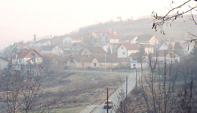 Image of Ledinci village near Novi Sad (self made)